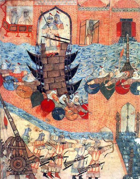 Siege on Baghdad by the Mongols led by Hulagu Khan 1258